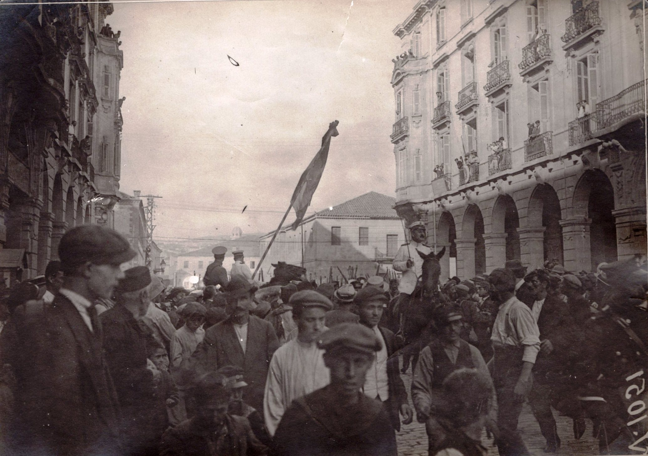 Demonstrations in Thessaloniki, WWI This media file is produced by Wikipedian in Residence in Category:Wikipedian in Residence at DARM in 2016.